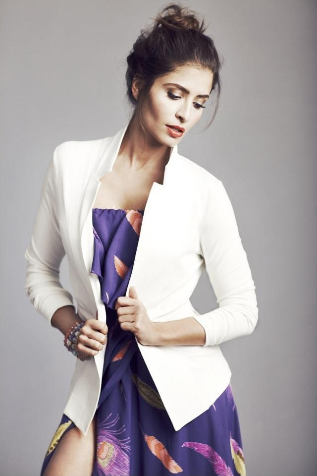 Mercedes Masohn